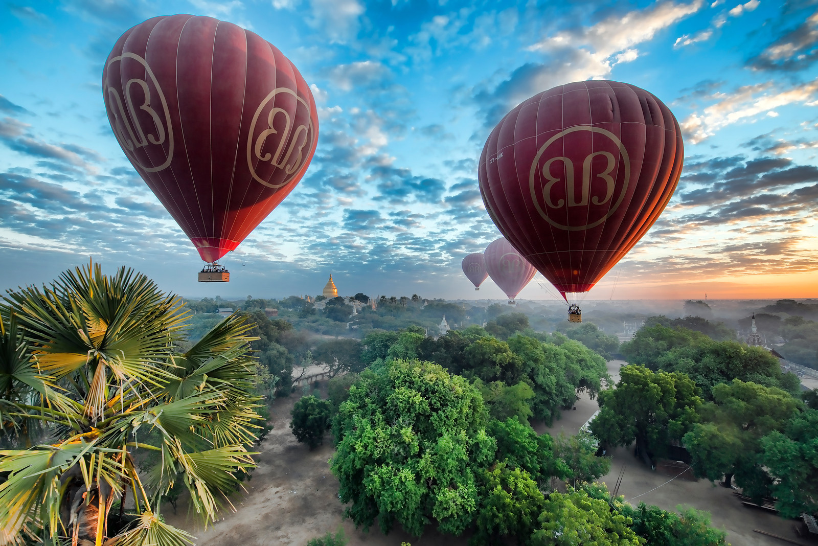 Balloons over Bagan by photographer @ChrisMichel